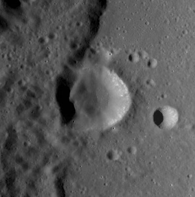 Bergman crater - LROC image WAC No. M118953506ME.